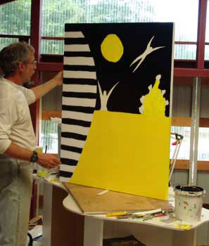 Artist Phil Dynan painting in his studio.